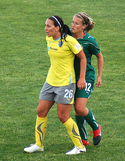 Holmfridur Magnusdottir of the WPS Philadelphia Independence.